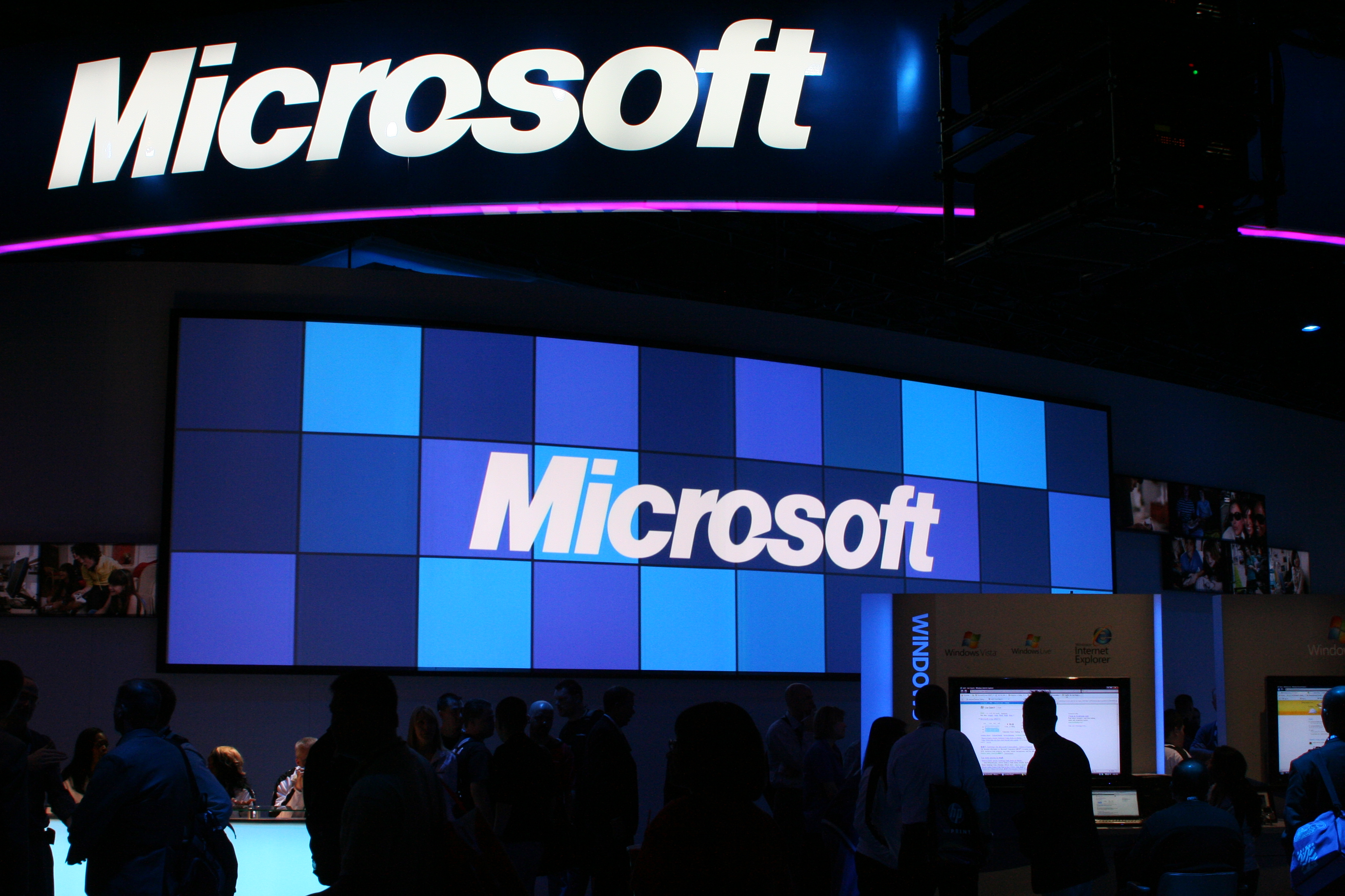 Microsoft booth at the Consumer Electronics Show 2009